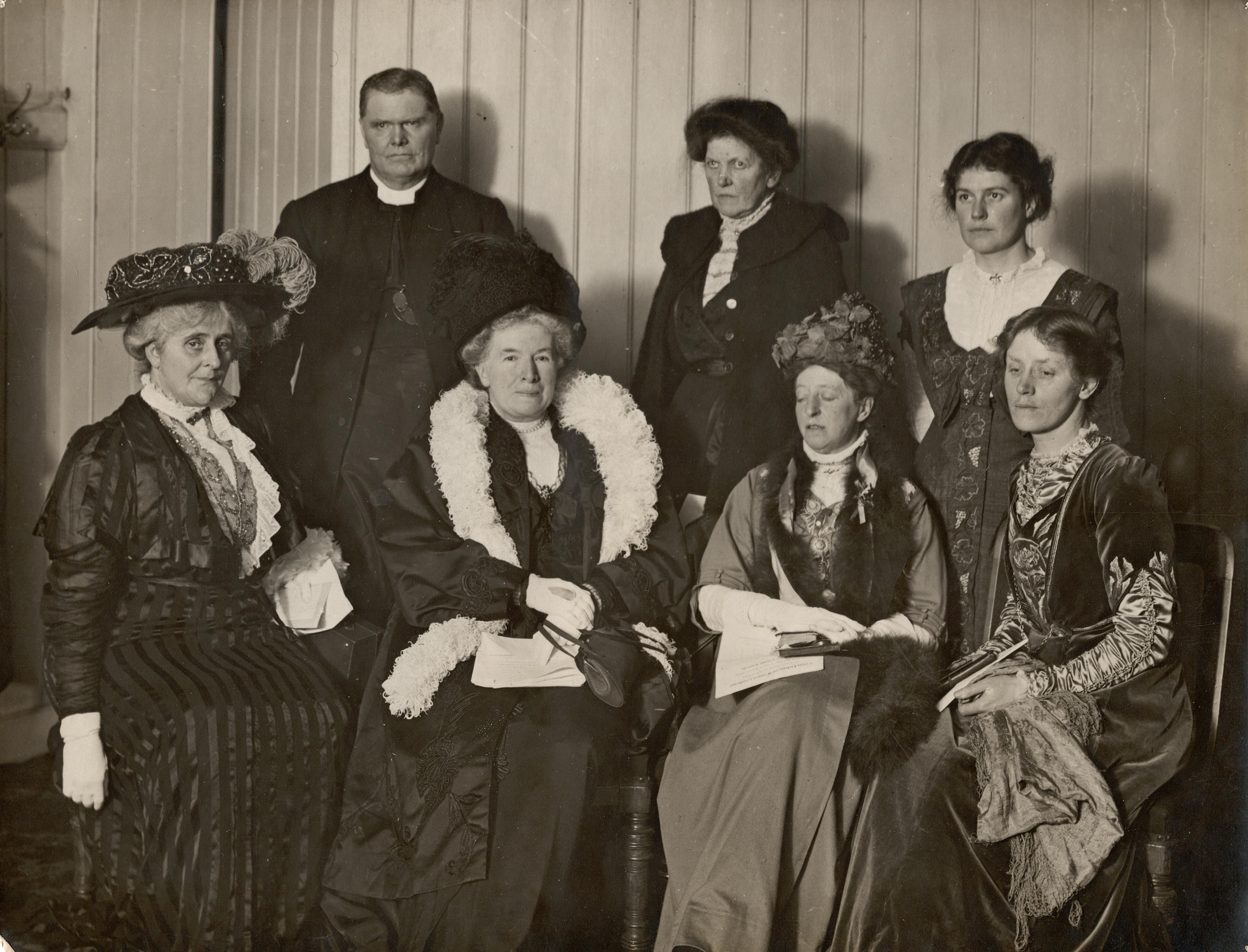 'Debate between Suffrage & Anti-Suffrage Societies held at Free Trade Hall, Manchester', 1909 group arranged in two rows one seated, one standing, indoors, manuscript inscription reverse: 'Debate between Suffrage & Anti-Suffrage Societies held at Free Trade Hall, Manchester. Sitting: Mrs Arthur Somerwell, Mrs Humphrey Ward, Miss Margaret Ashton, Mrs Helena Swanwick. Standing: Dean of Manchester. Miss - Gladstone, Mrs Margaret Hills (née Robertson)'. Source: Manchester Courier and Lancashire General Advertiser - Wednesday 27 October 1909. TWL.2004.524